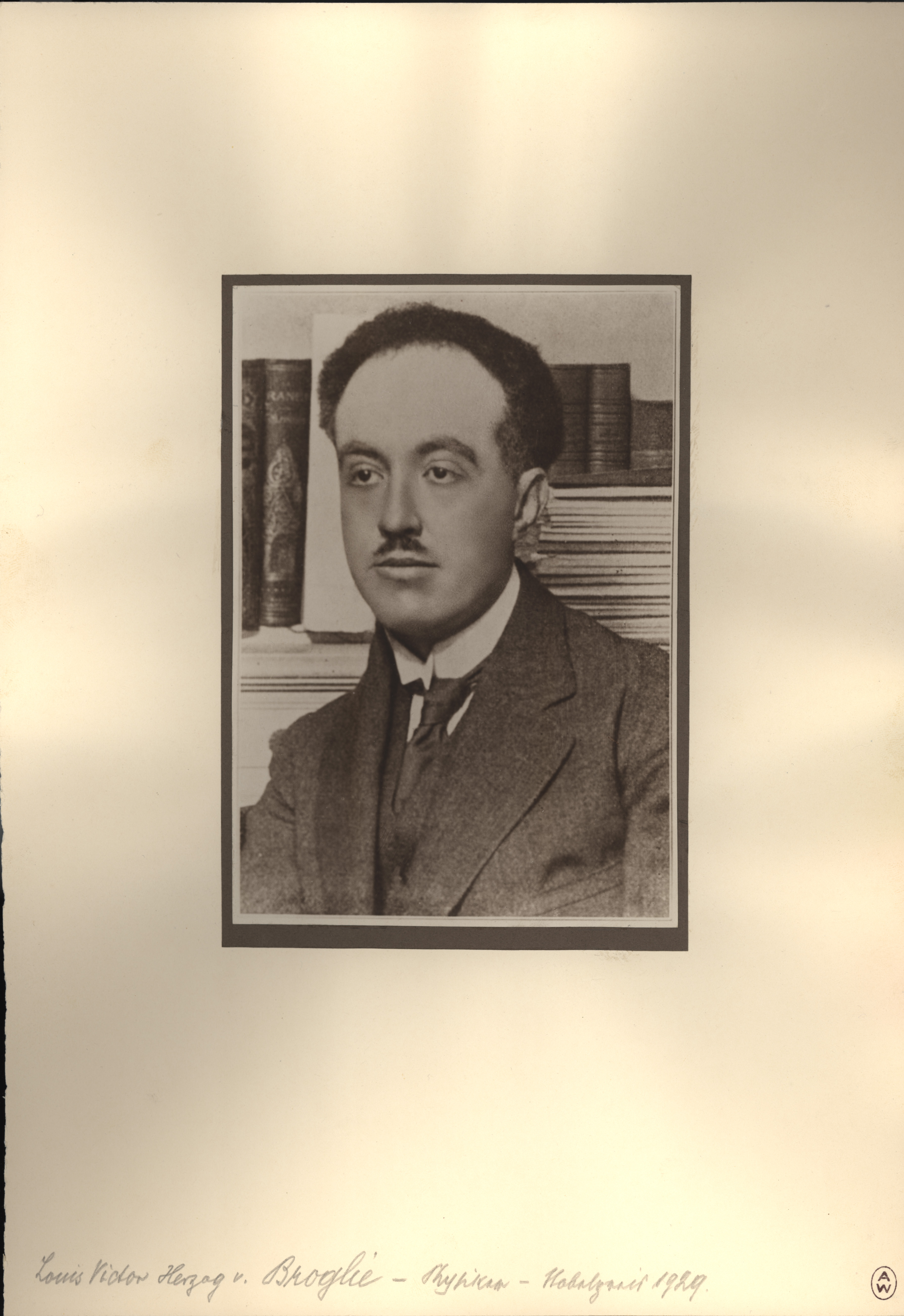 Creator/Photographer: Unidentified photographer Medium: Medium unknown Dimensions: 17 cm x 11.8 cm Date: 1929 Collection: Scientific Identity: Portraits from the Dibner Library of the History of Science and Technology - As a supplement to the Dibner Library for the History of Science and Technology's collection of written works by scientists, engineers, natural philosophers, and inventors, the library also has a collection of thousands of portraits of these individuals. The portraits come in a variety of formats: drawings, woodcuts, engravings, paintings, and photographs, all collected by donor Bern Dibner. Presented here are a few photos from the collection, from the late 19th and early 20th century. Persistent URL: [1] Repository: Smithsonian Institution Libraries Accession number: SIL14-B8-06